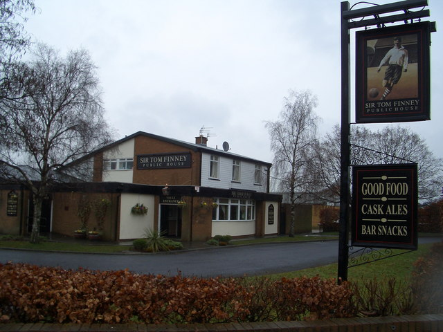 The Sir Tom Finney, a pub in Penwortham Preston, Lancashire.